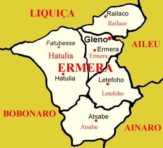 Subdistricts of District of Ermera/East Timor.